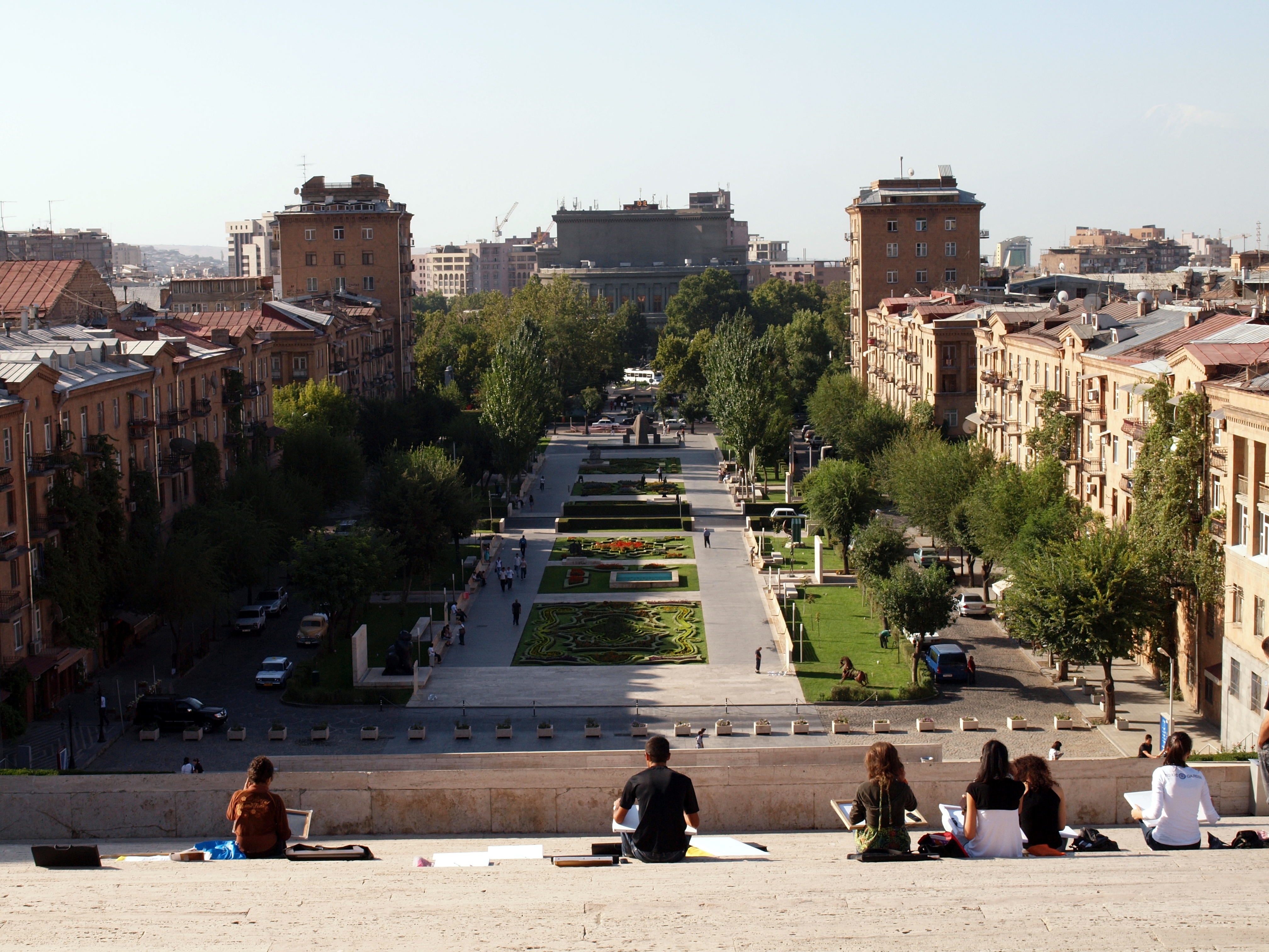 Armenia - Day 1 - 18 September 2010, The Cascade is an astonishing series of stepped levels designed and initiated in Soviet times but left unfinished. The scale is enormous but very little (if any) water runs down it it.